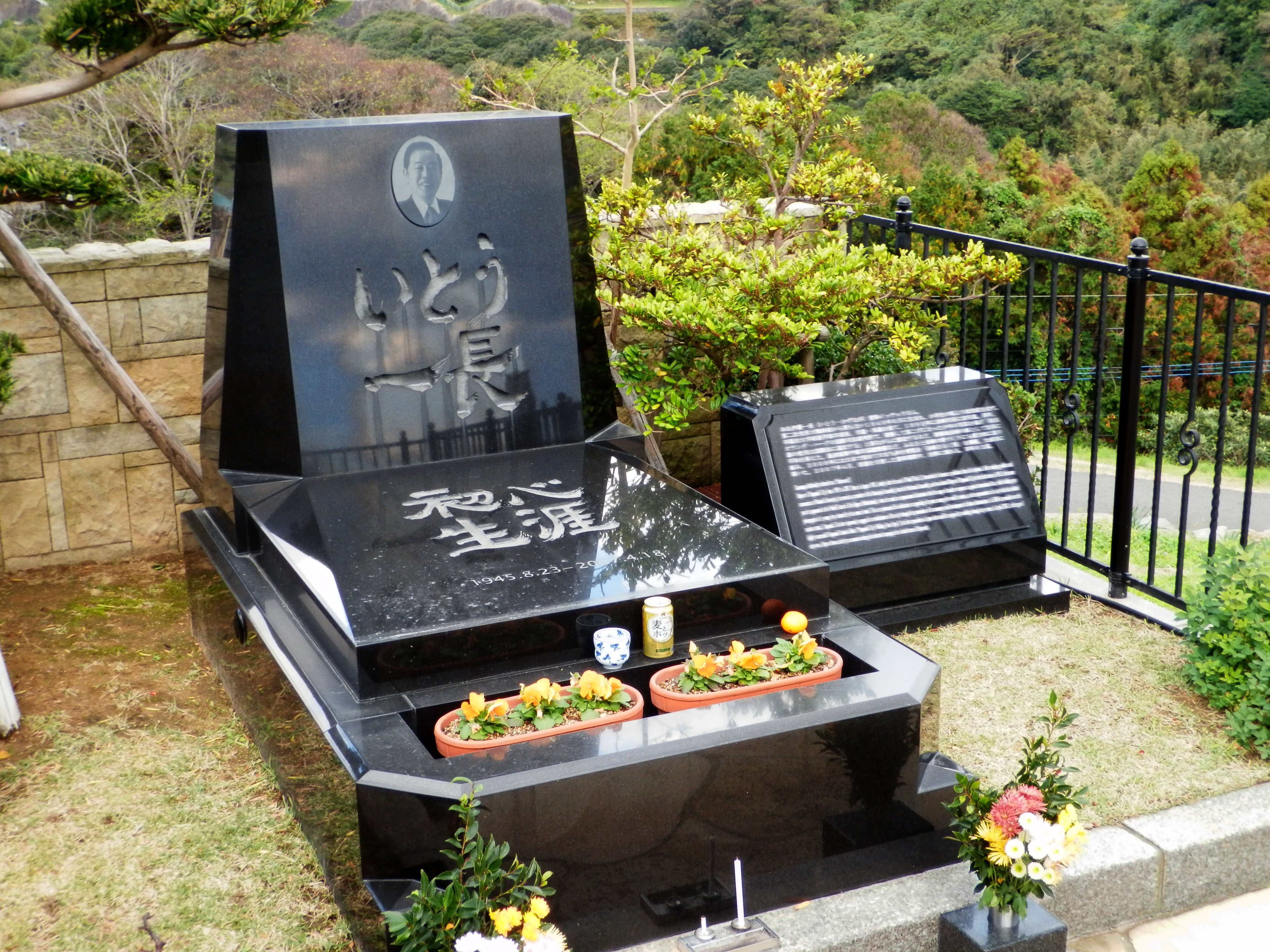 Tomb of Iccho Itoh